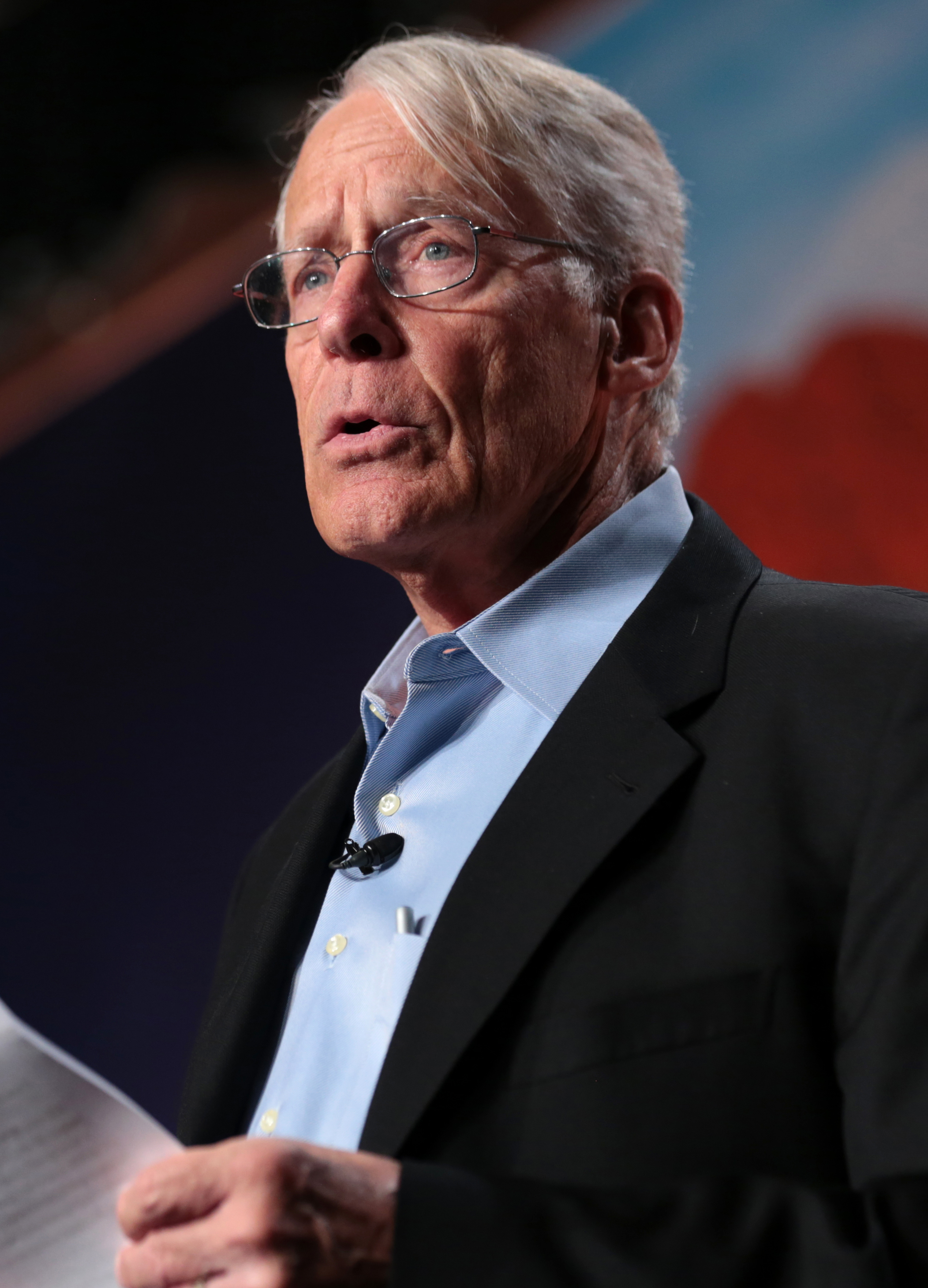 S. Robson Walton speaking at an event in Phoenix, Arizona.